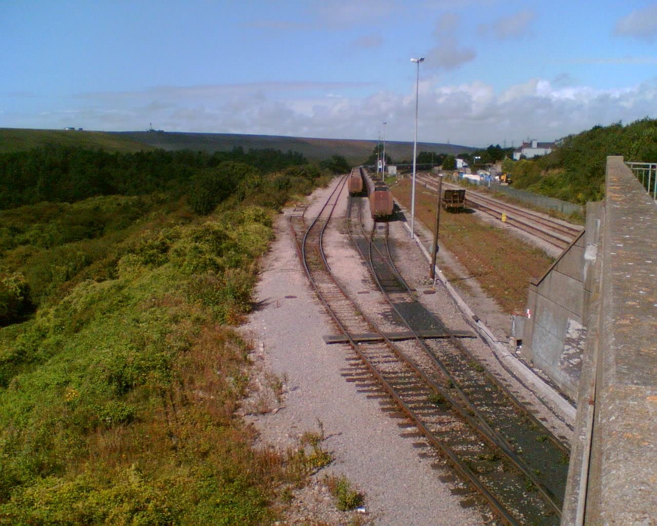 Aberthaw - 20060902 - Overview as 66101 waits to enter Aberthaw Power Station.jpg Self, taken on Nokia 6310i from Aberthaw village carpark